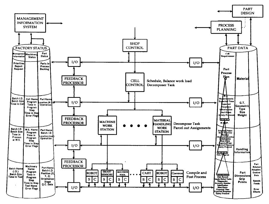 Architecture for the NBS Automated Manufacturing Research Facility (AMRF). On the right is a hierarchical database containing process plans and control programs that define how to manufacture parts. On the left is a hierarchical database containing information about the state of the parts and machines in the AMRF. In the middle are the controllers that compute plans, sequence commands, measure results, and compute actions to compensate for errors between plans and results. The arrows represent a communications system that moves information throughout the architecture